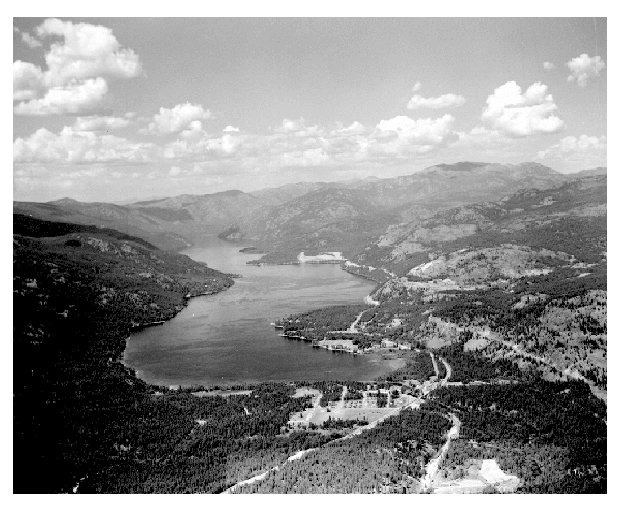 Photographer:BC Government Photo taken:1947 Source:BC Archives #I-28257 [1]